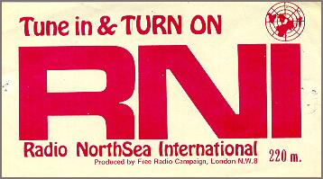 RNI sticker produced by FRA for 220 / 1367